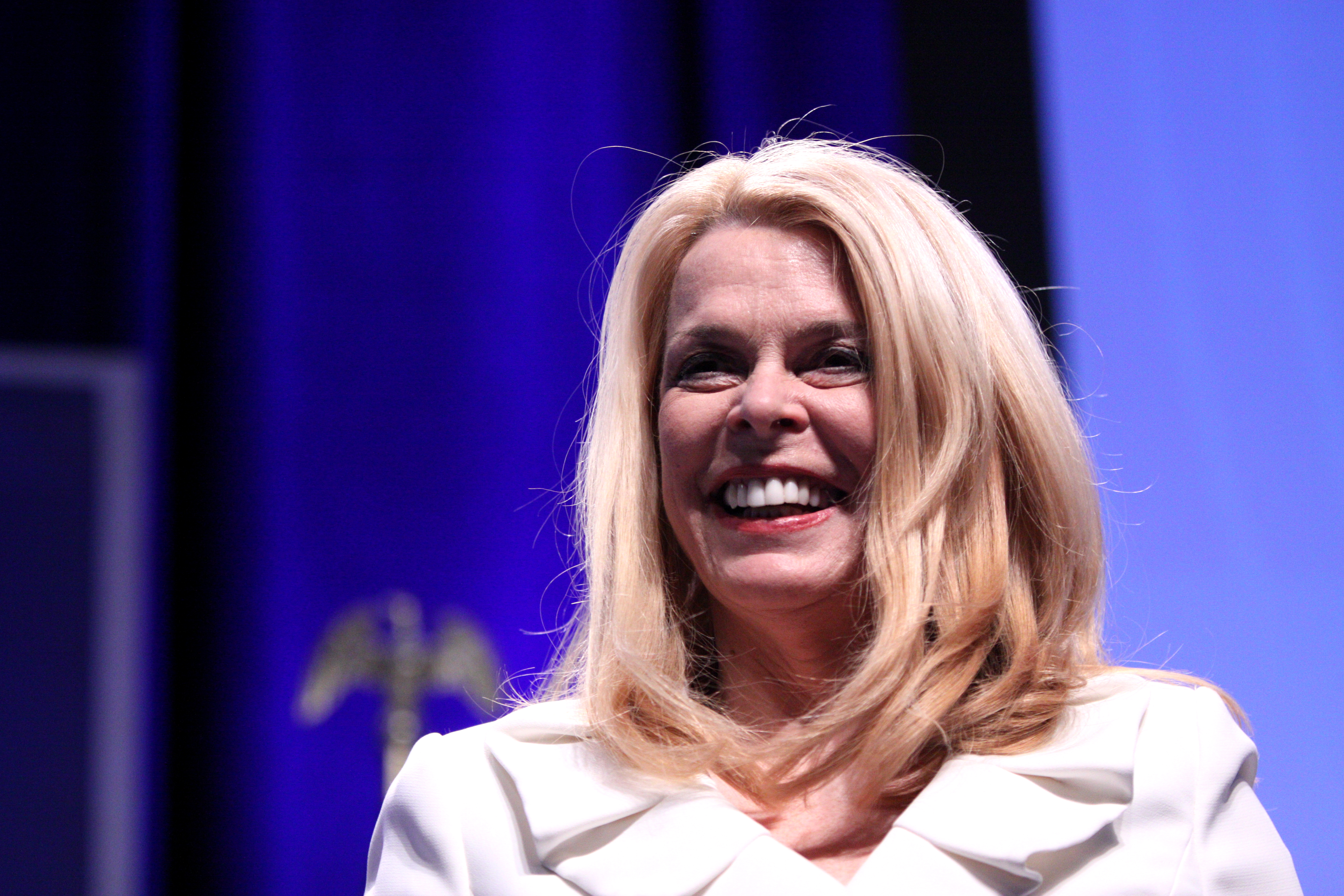 Former Lieutenant Governor Betsy McCaughey of New York speaking at CPAC 2011 in Washington, D.C.